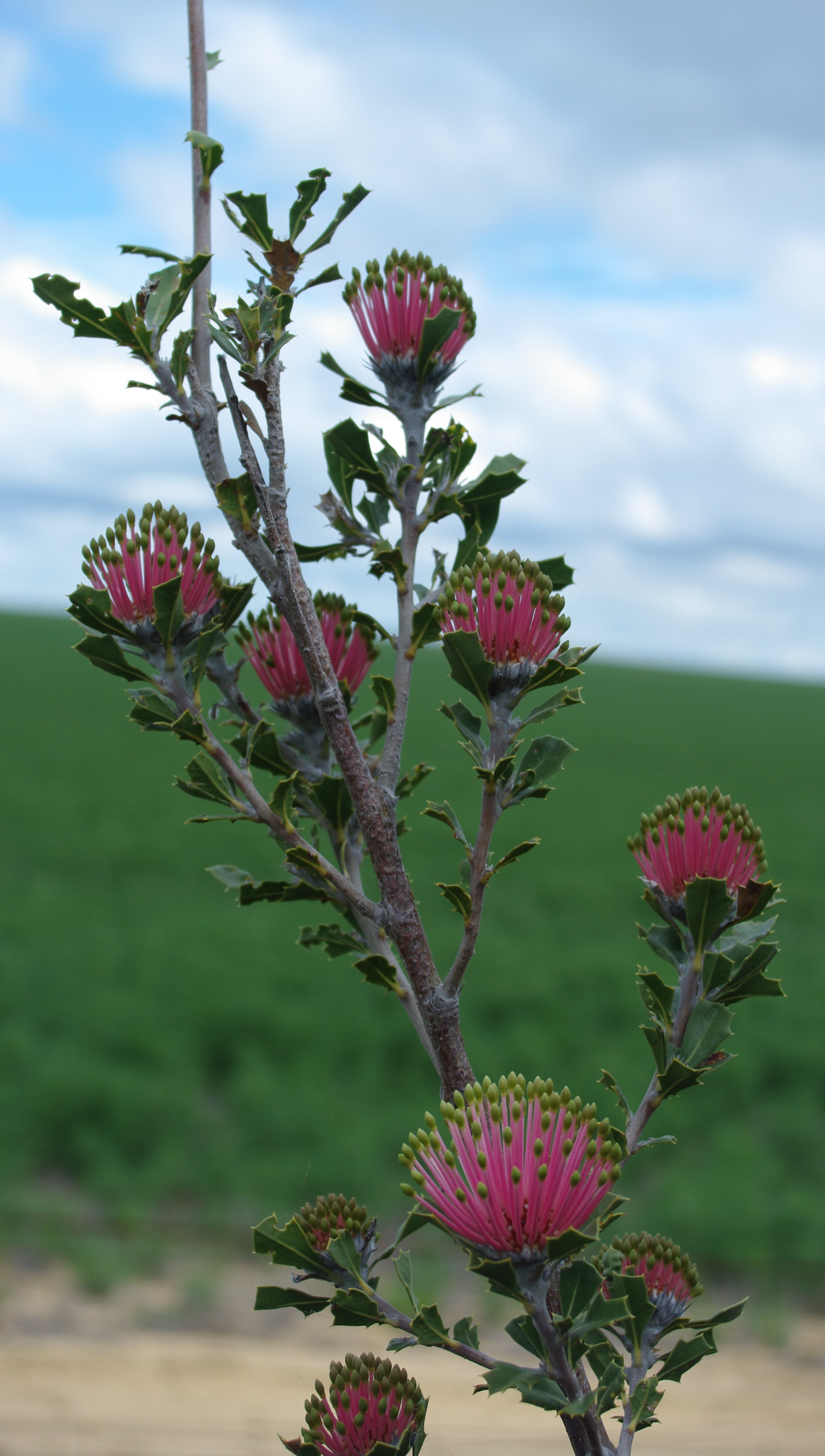 Banksia cunaeta -- Quariading Banksia or Matchstick Banksia